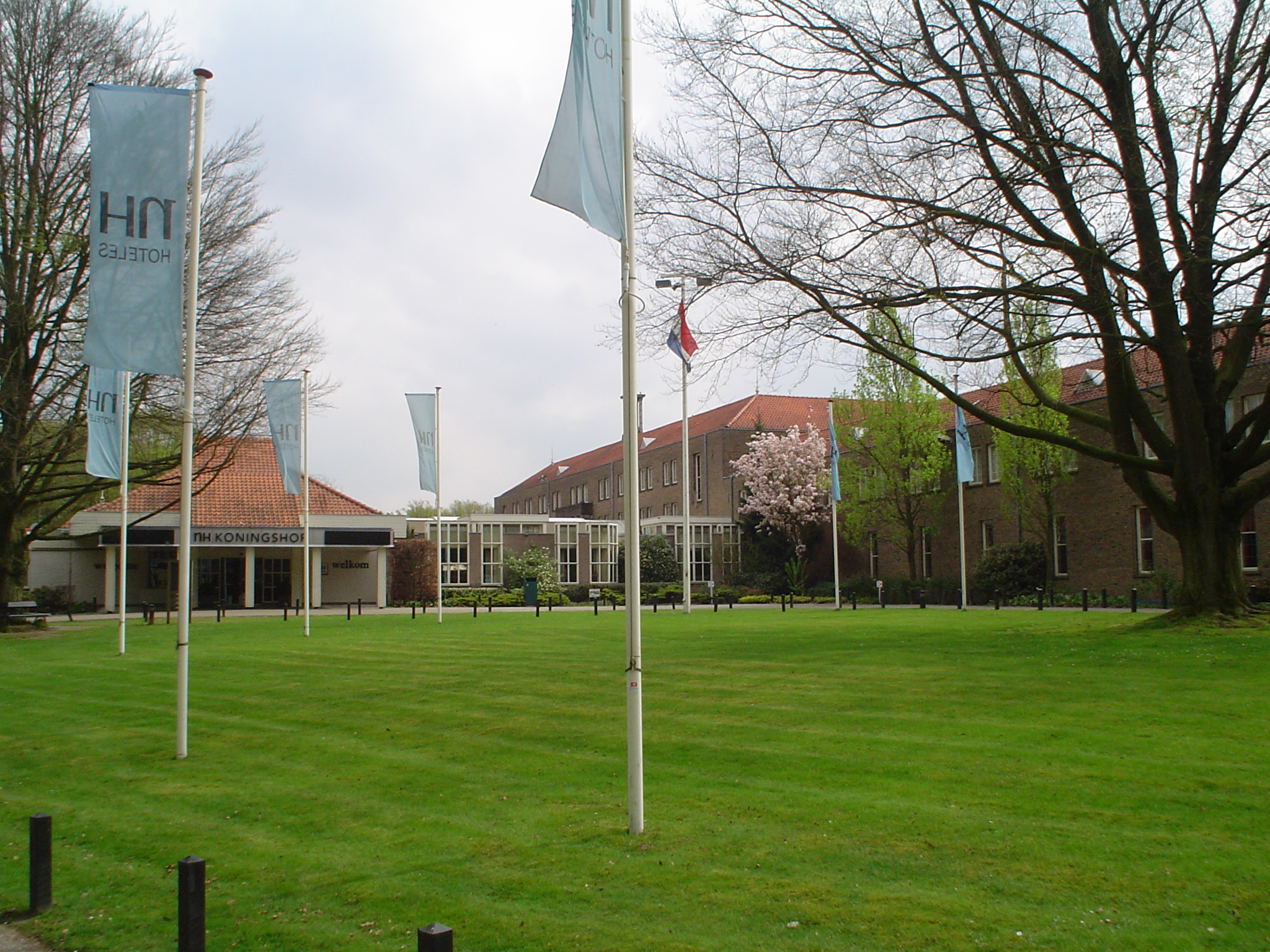 The entrance to hotel and conference centre Koningshof in Veldhoven. The hotel is owned by the NH Hotels group and located in a former convent.